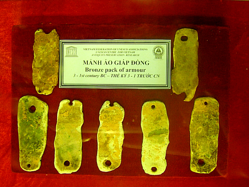 pieces of Đông Sơn bronze lamellar armor, 3rd to 1st century BC